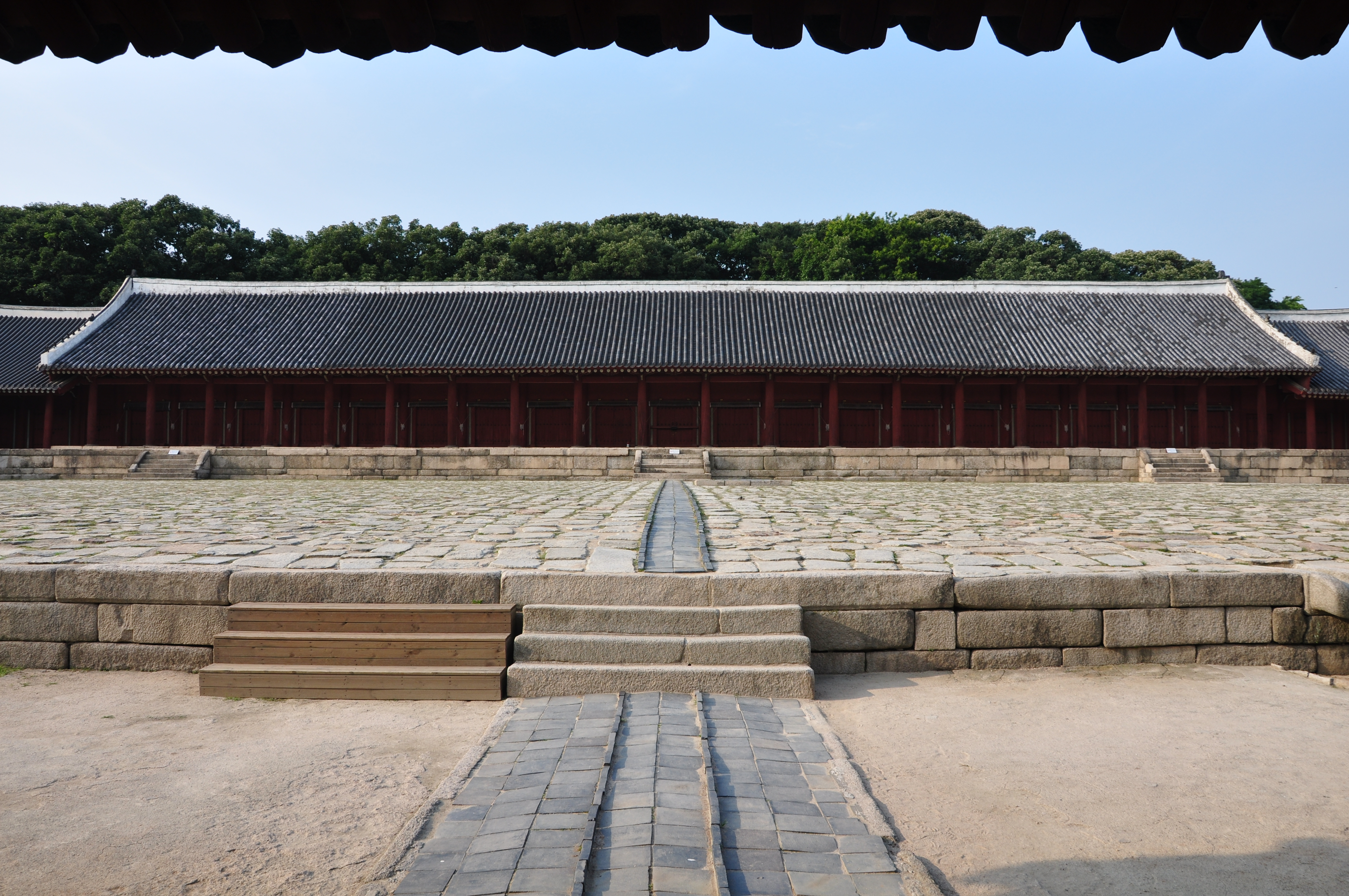 Jongmyo is a royal shrine in Seoul. This is the largest building. It houses 19 memorial tablets for past kings of Korea and for their queens.